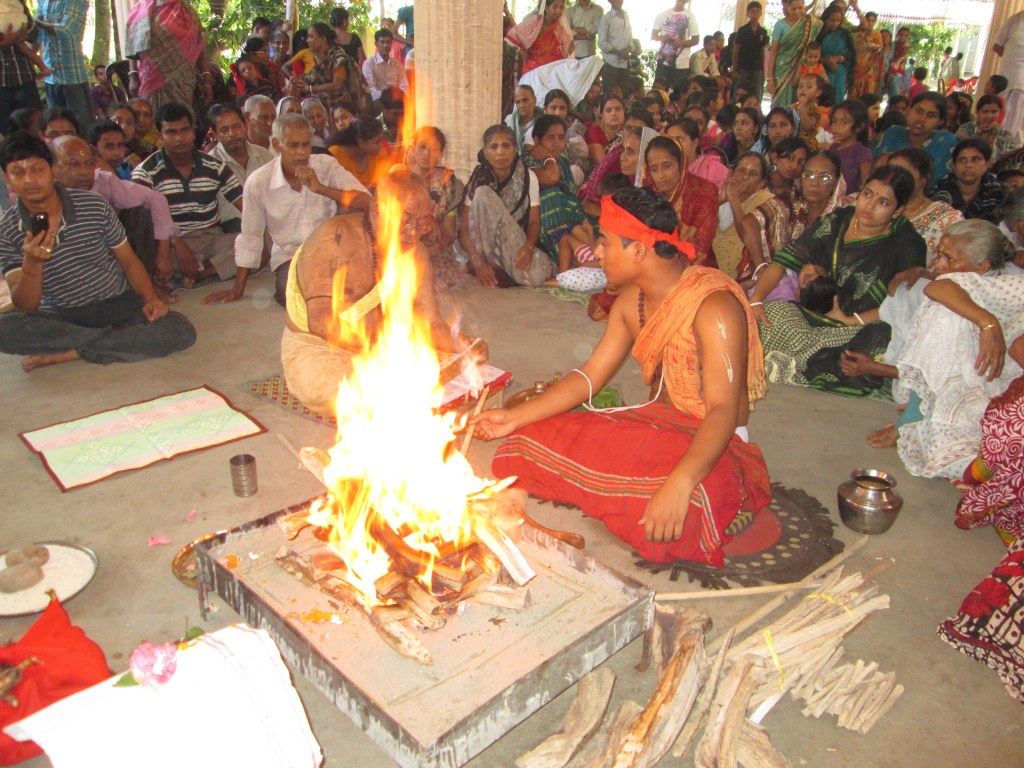 দুর্গা পুজা ২০১৩